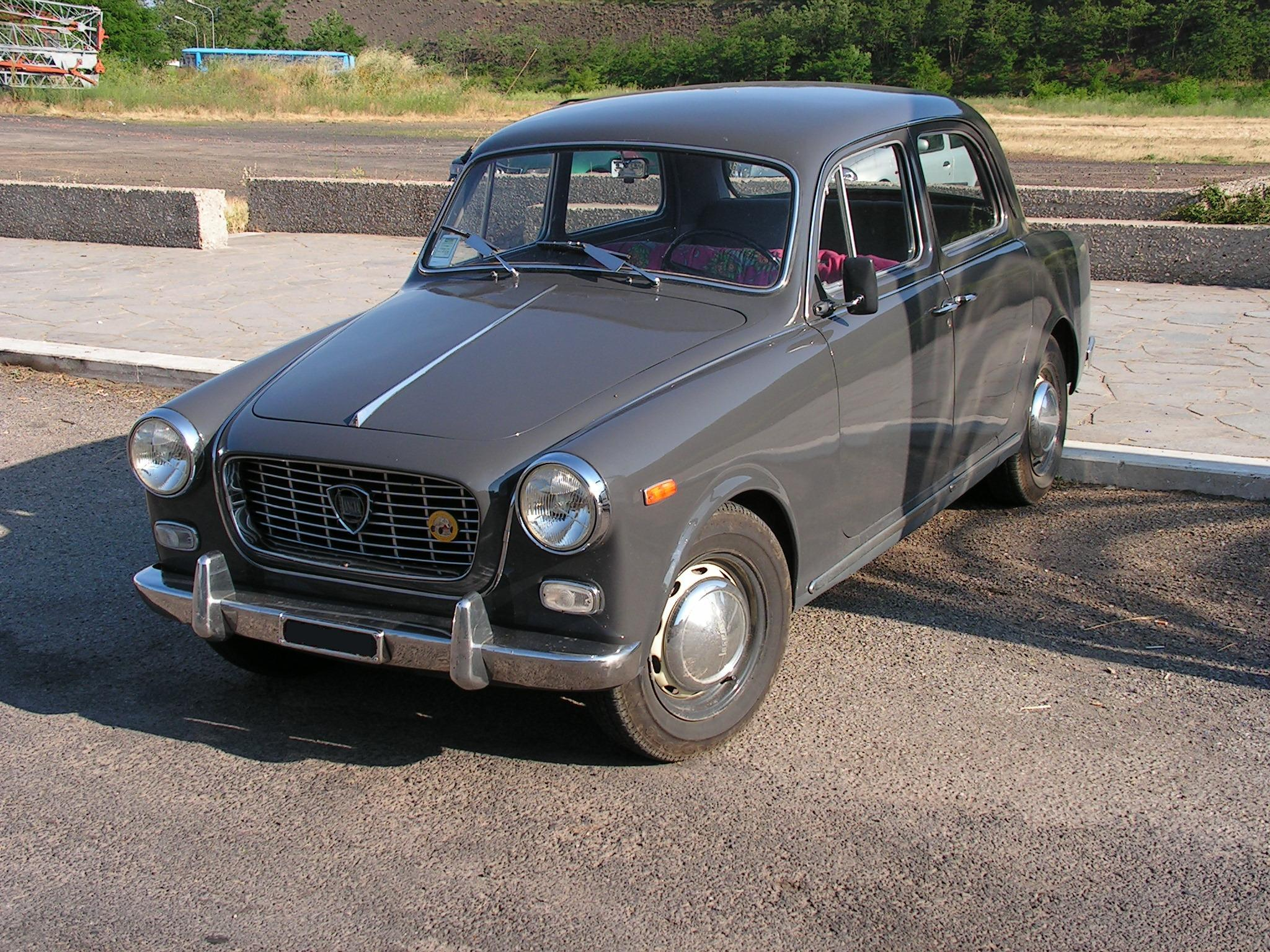 Lancia Appia Author:Snowdog